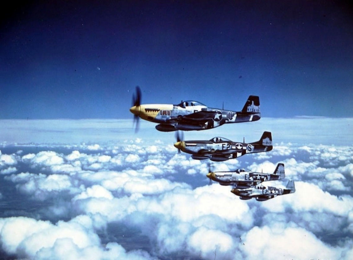 "The Bottisham Four", four USAAF North American P-51 Mustang fighters from the 375th Fighter Squadron, 361st Fighter Group, from RAF Bottisham, Cambridgeshire (UK), in flight on 26 July 1944. The nearest aircraft is P-51D-5-NA s/n 44-13410 ("Lou IV" on the left side, the 4th aircraft named after his daughter, "Athelene" on the right side, probably the crew chief's lady friend or wife), flown by the 361st C/O Col. Thomas J.J. Christian Jr., who was killed in this plane while dive-bombing the Arras marshalling yards on 12 August 1944. The 2nd aircraft is P-51D-5-NA s/n 44-13926, already equipped with the fin-fillet, was flown by Lt Urban L "Ben" Drew. This aircraft crashed during a training flight near Stalham, Norfolk, on 9 August 1944, the pilot, 2Lt. Donald D. Dellinger, was killed. The 3rd aircraft is P-51D-5-NA s/n 44-13568 ("Sky Bouncer" later "Alice Marie") flown by Capt Bruce W. "Red" Rowlett, 375th FS operations officer. This aircraft suffered an engine failure on take-off and crashed on 3 April 1945. The furthest P-51 is P-51B-15-NA s/n 42-106811 flown by Capt Francis T Glankler (named "Suzy-G", after his wife), 375th FS "D" Flight commander. This plane was written off after a crash landing at Bottisham following a combat mission on 11 September 1944